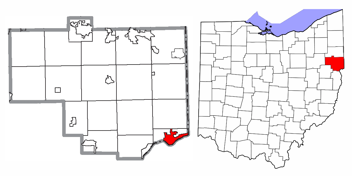 Map highlighting City of East Liverpool, Columbiana County, Ohio.